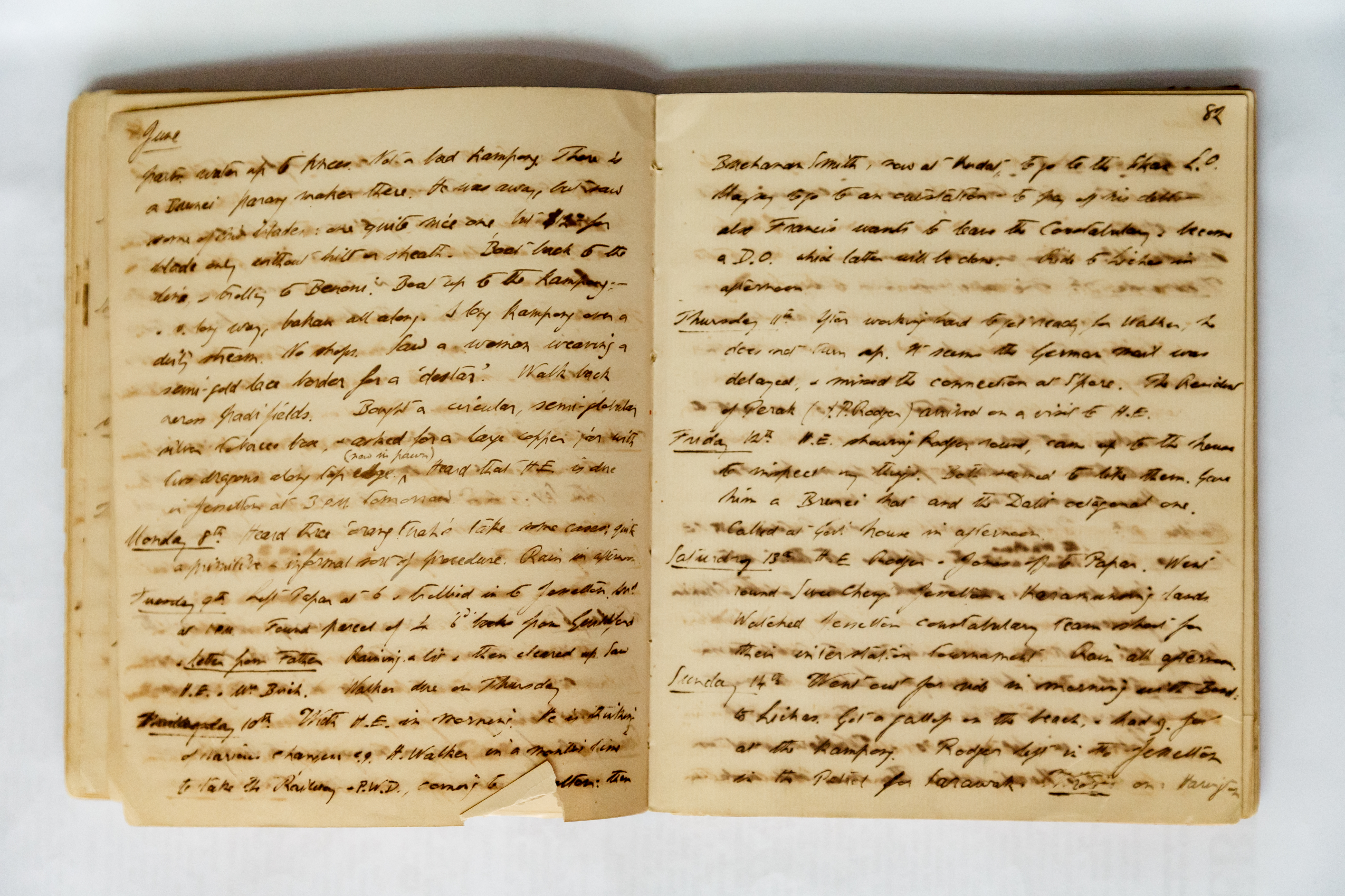 Handwriting of G.C. Woolley from a page in the diary No. 2 in a series of 12 notebooks (1901-1926). Photo of the original diary which is in possession of Sabah Museum, Kota Kinabalu. Permit to take photo courtesy of Sabah Museum.